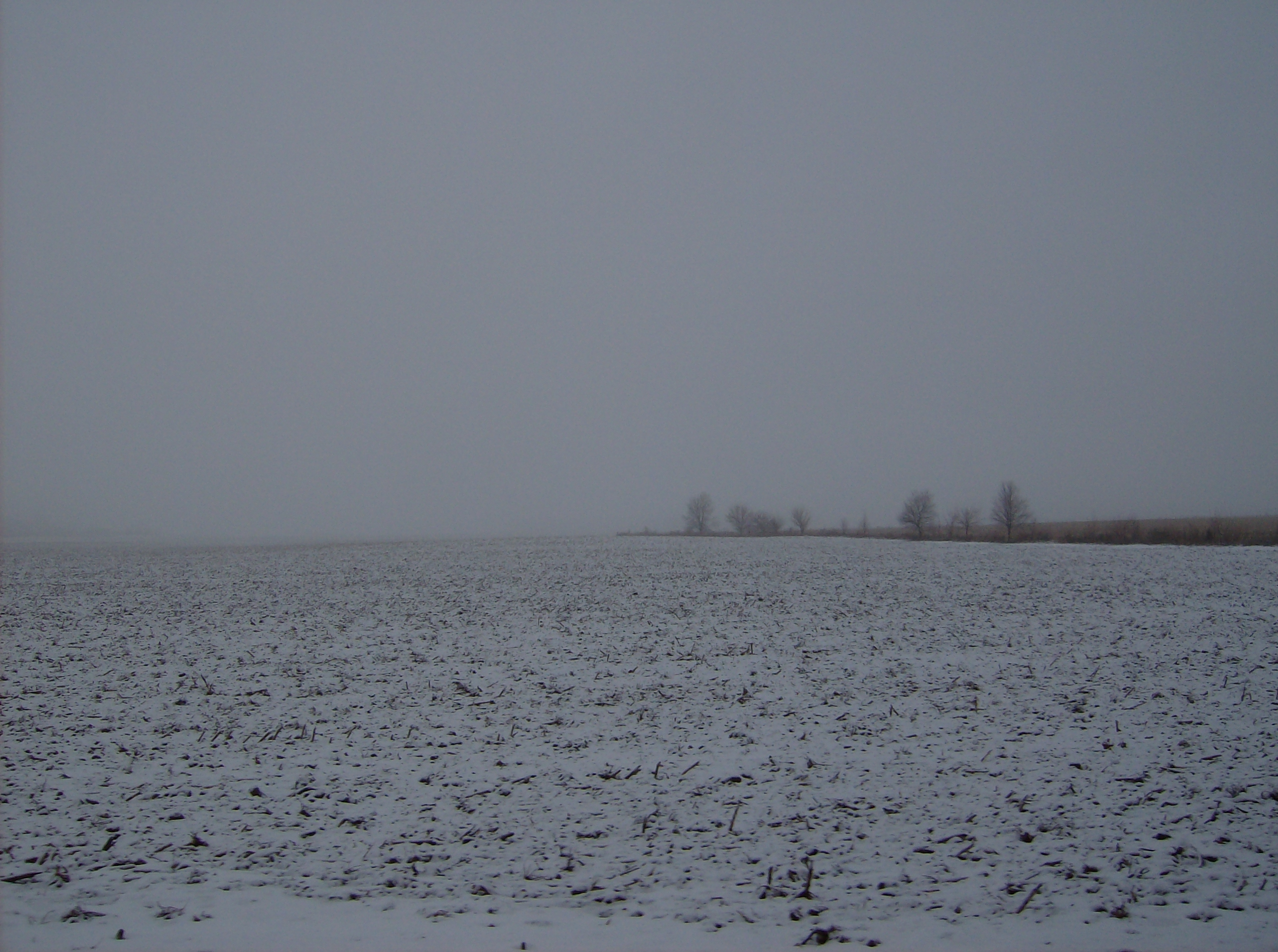 Fields in northwestern Warren Township, Clinton County, Indiana, United States. Picture taken northward from State Road 26.